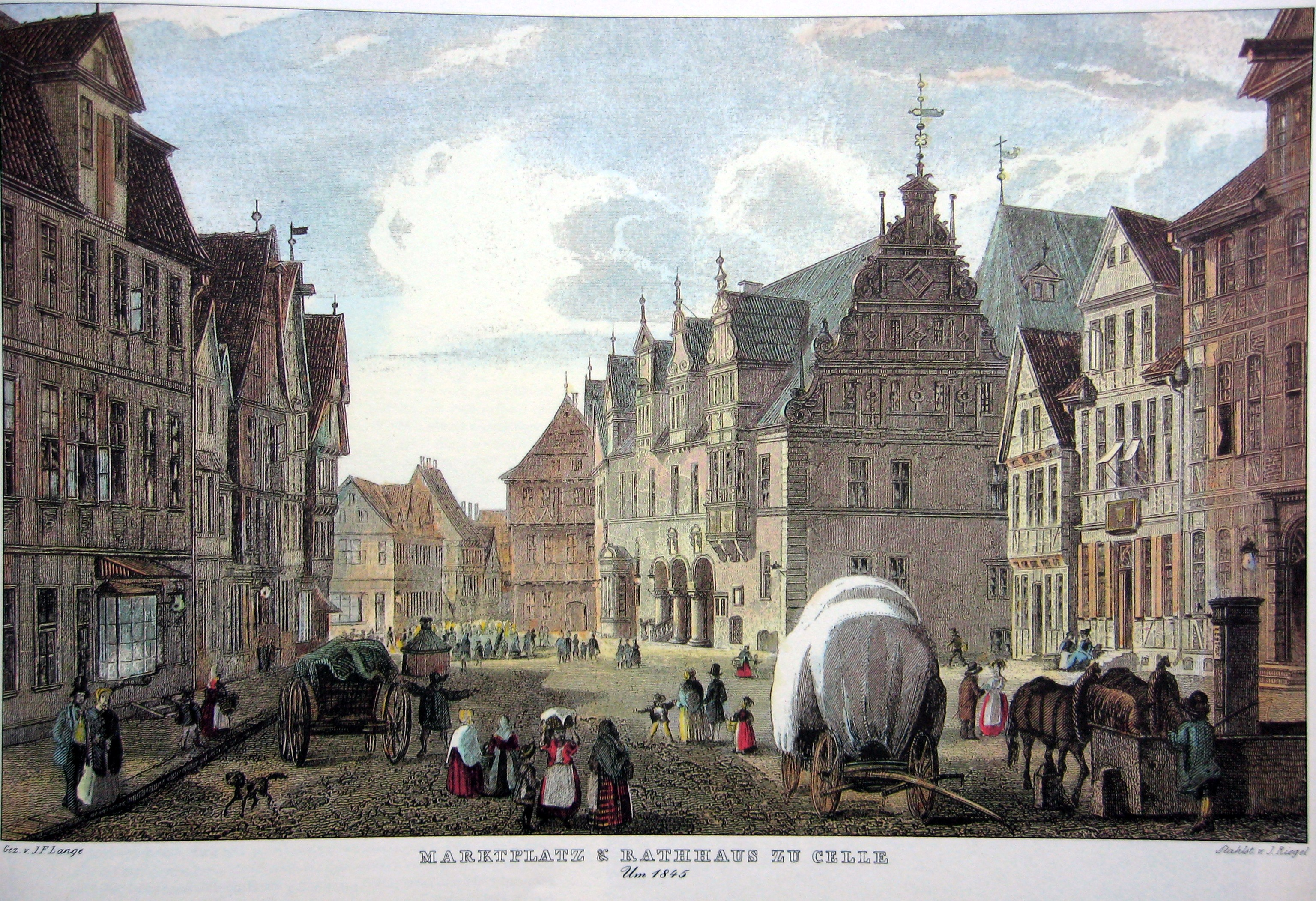 Steel engraving of the market place around 1845.